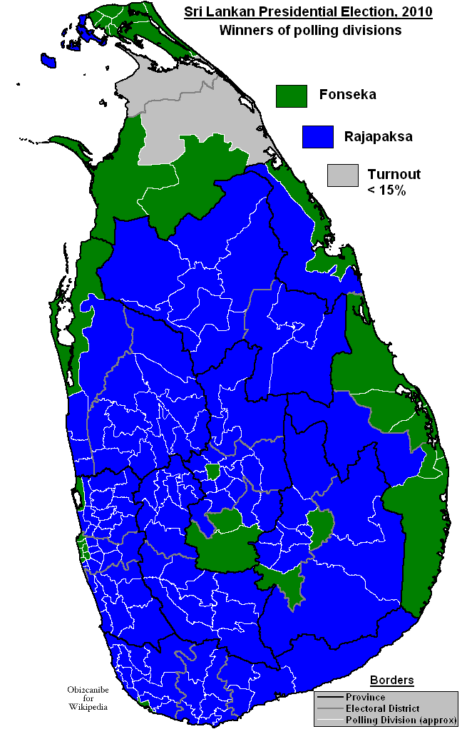 Map showing winners of polling divisions in the Sri Lankan presidential election of 2010.